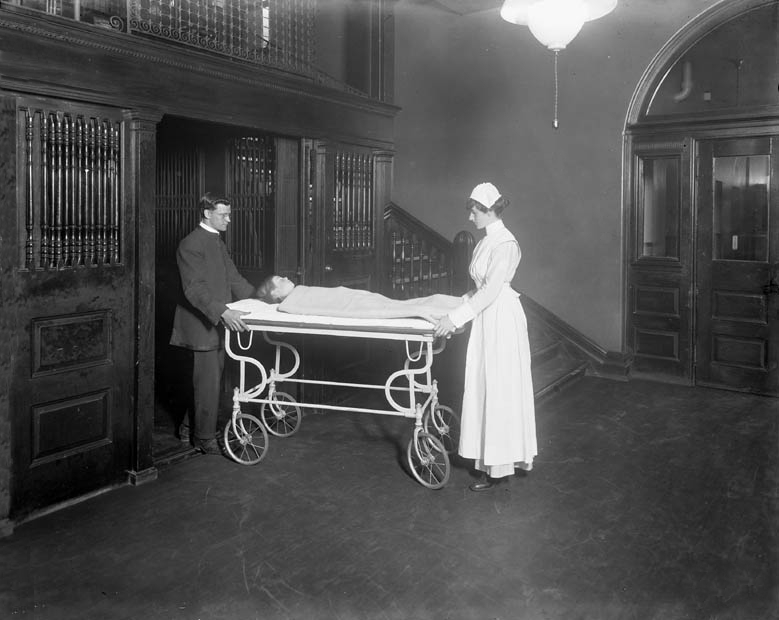 Nurse and orderly are transporting a child on a stretcher to the operating room at the Hospital for Sick Children. They are about to enter an elevator. c. 1915.